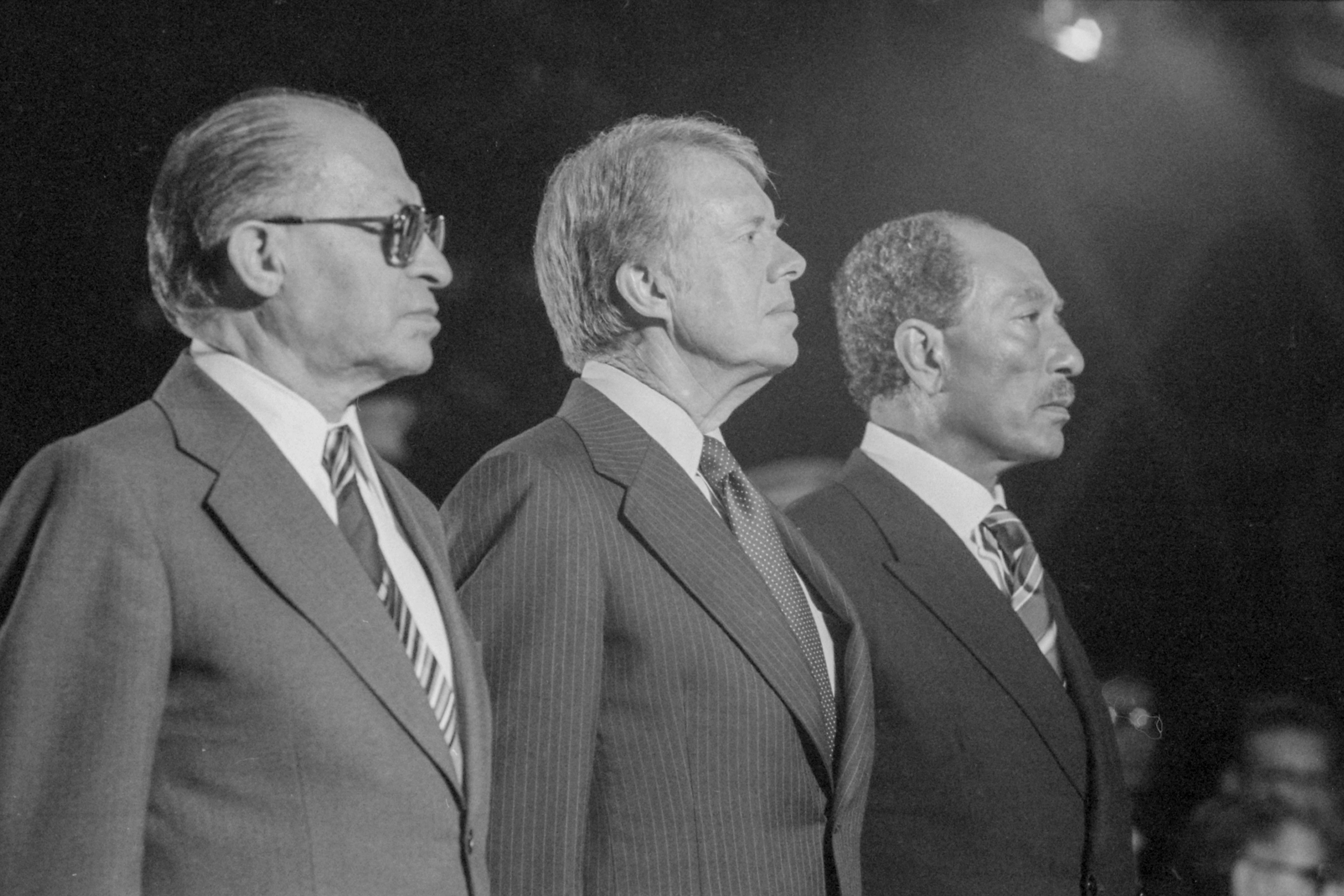 From left to right: Menachem Begin, Jimmy Carter and Anwar Sadat in Camp David